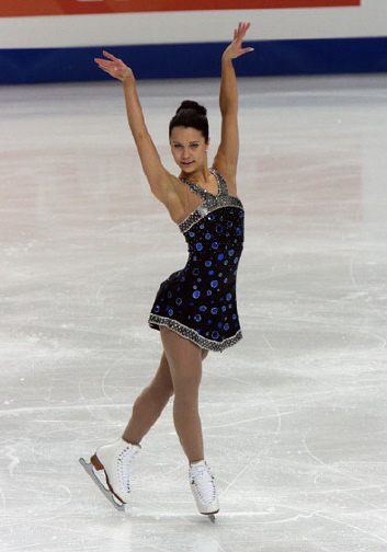 Susanna PÖYKIÖ at the 2009 European Figure Skating Championships